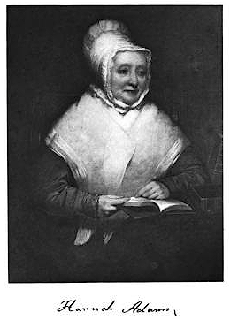 Hannah Adams, Athenaeum patron